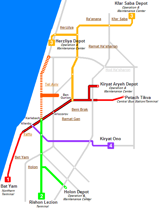 Tel Aviv subway map